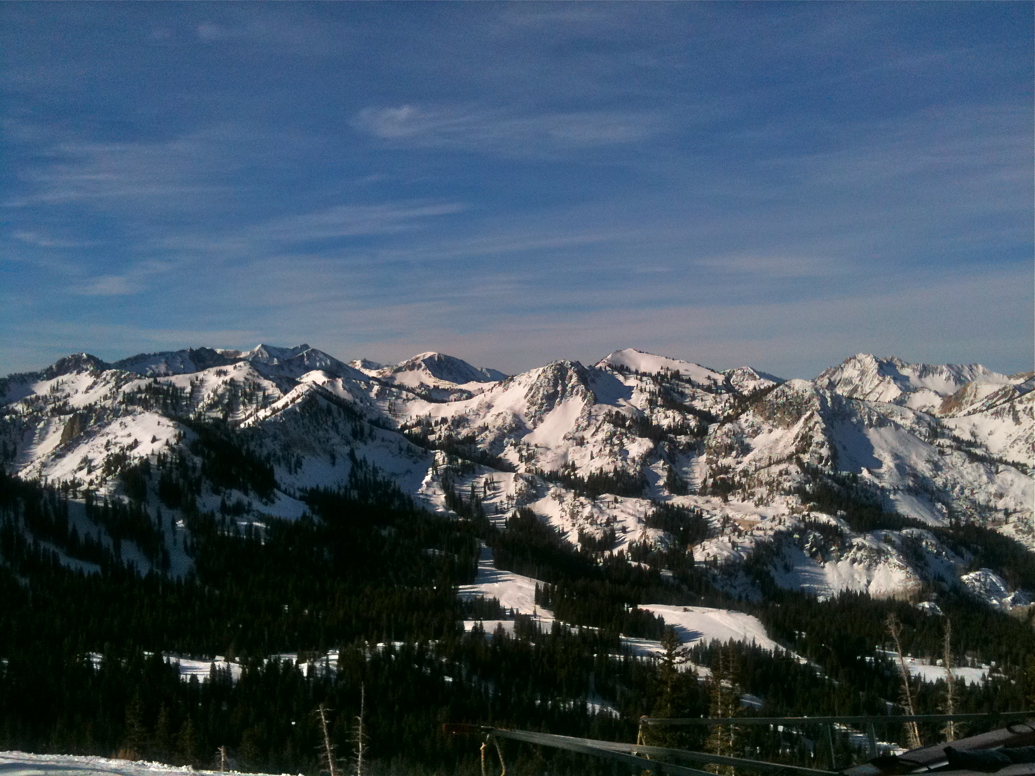 Big Cottonwood Canyon, located in the heart of the Wasatch mountains of Northern Utah.